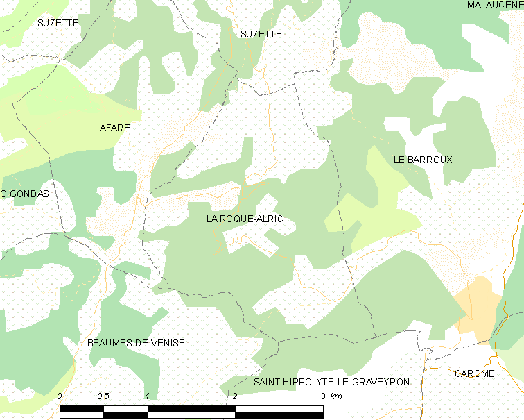 Map of French municipality La Roque-Alric